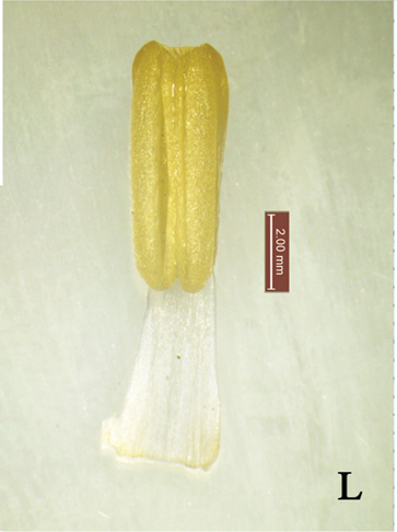 Amomum nilgiricum, stamen